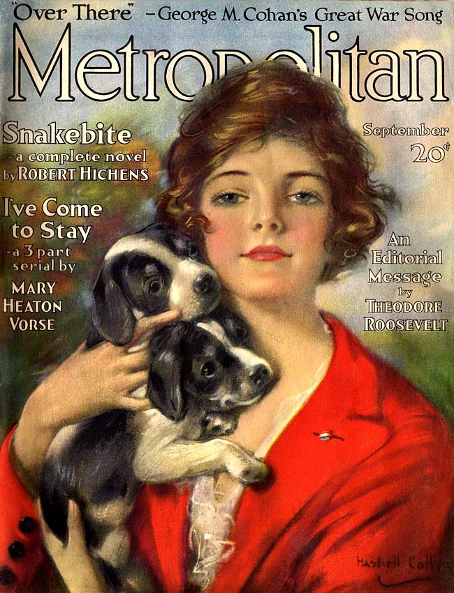 The September 1917 issue of Metropolitan Magazine. On the right: "An Editorial Message by Theodore Roosevelt".